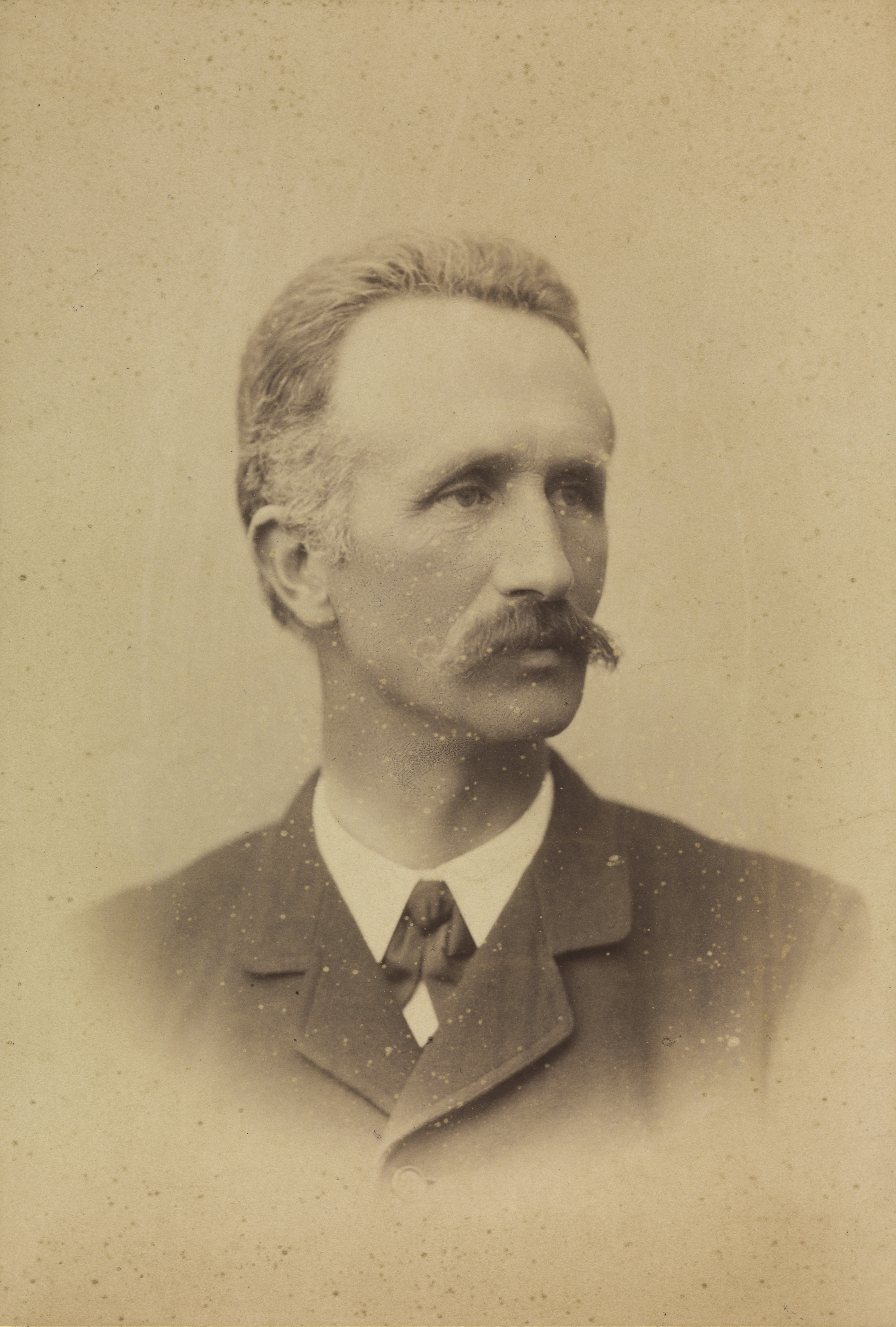 Jonas Collin, Danish zoologist. With dedication.